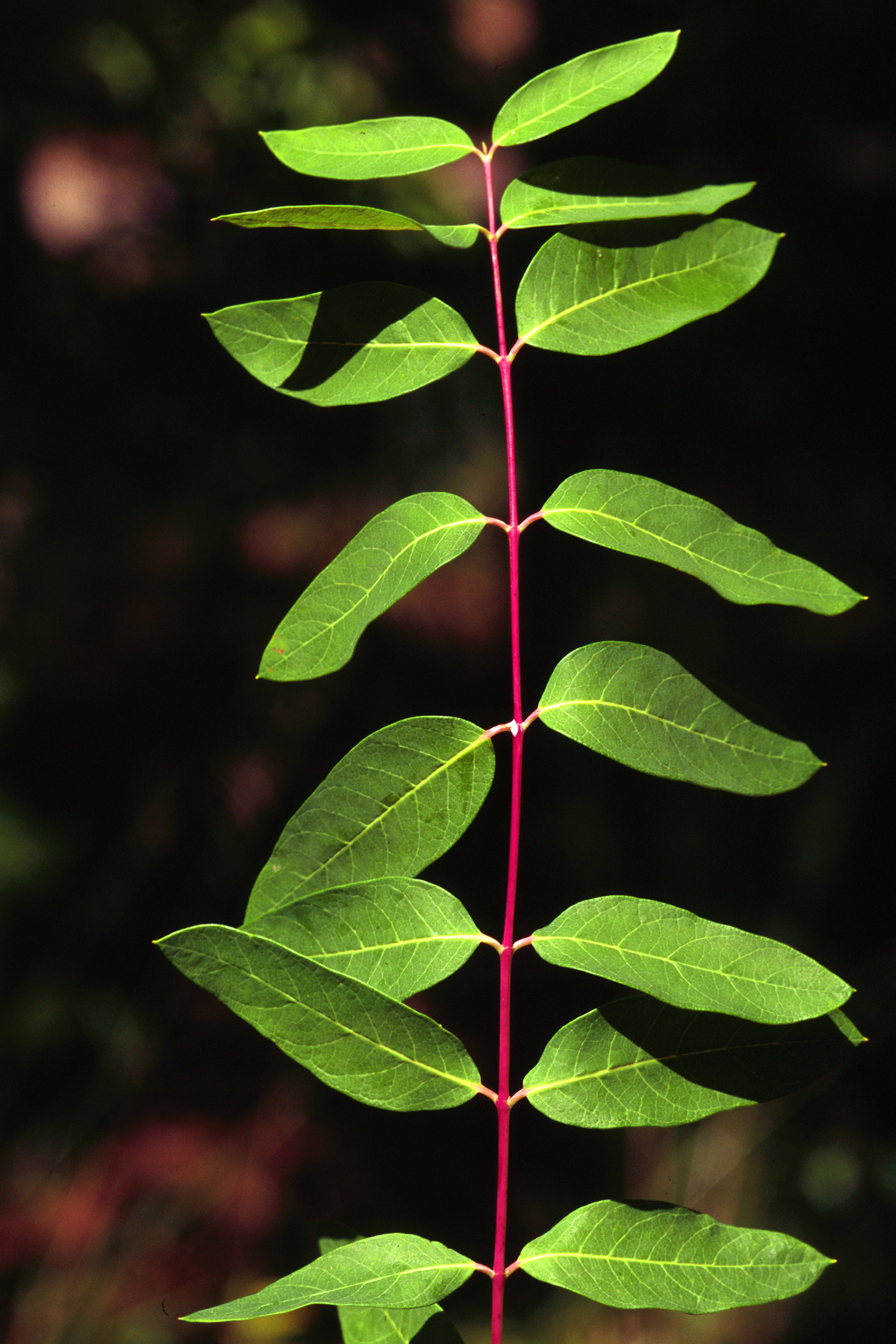 Apocynum cannabinum — Hemp dogbane. Southeastern United States, in September. Photo from Forest Plants of the Southeast and Their Wildlife Uses by J.H. Miller and K.V. Miller, published by The University of Georgia Press in cooperation with the Southern Weed Science Society.